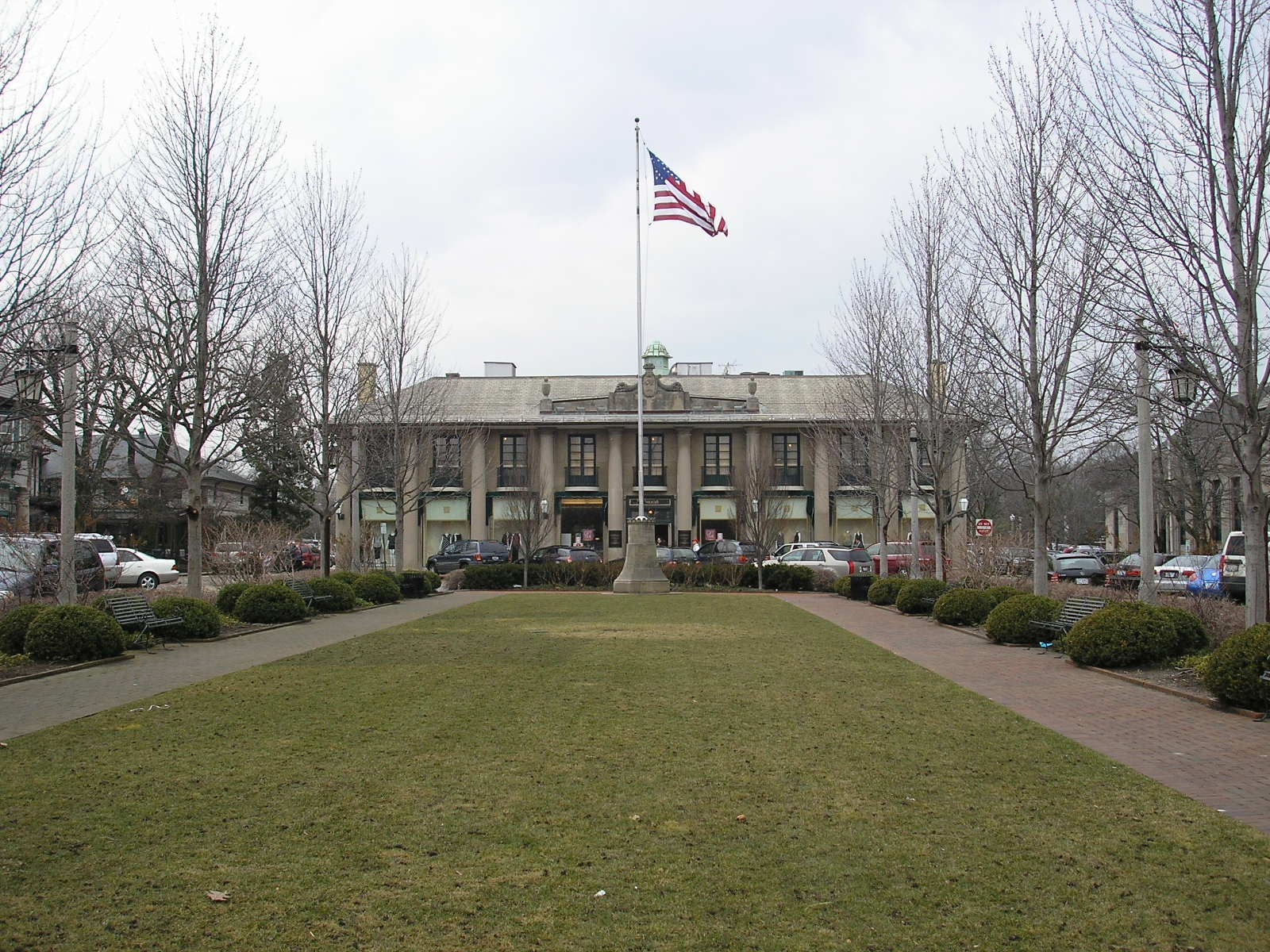 Macy's at Market Square in Lake Forest, Illinois